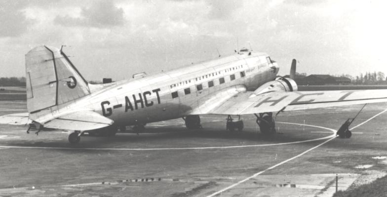 Douglas DC-3 Dakota G-AHCT of British European Airways at Manchester in 1951